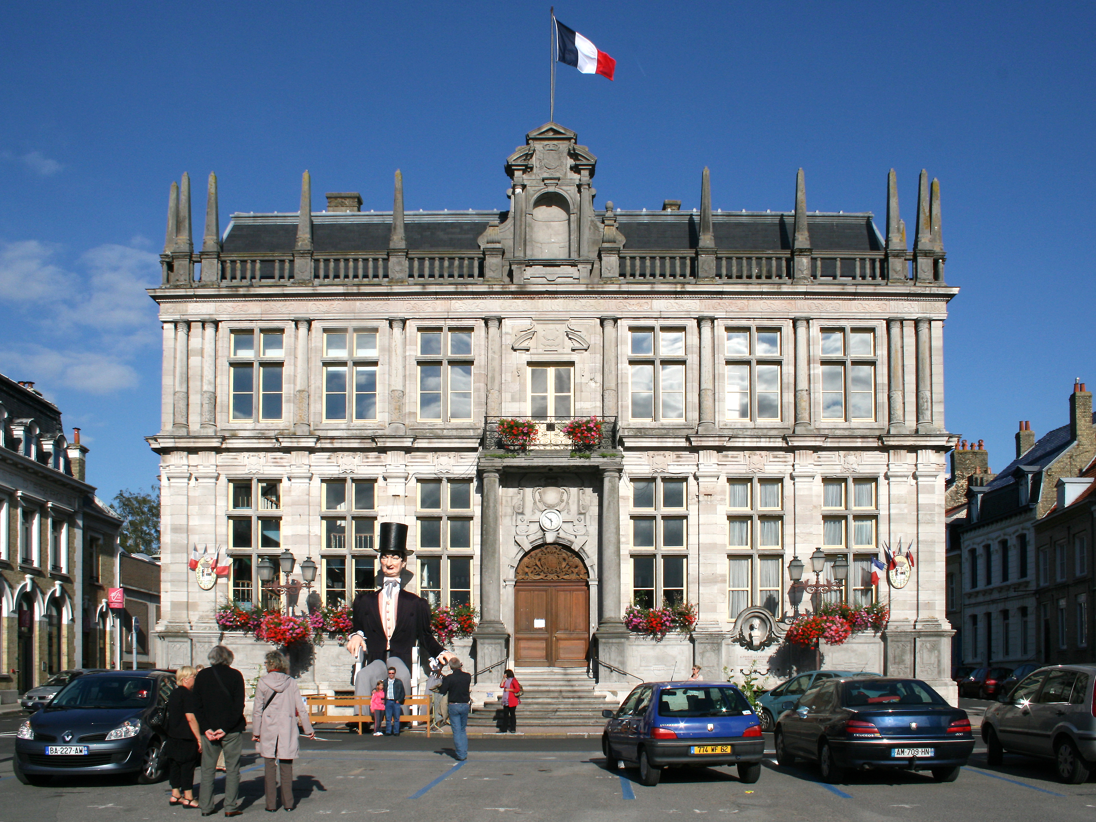 Bergues (Nord) - France, the Town hall (exactly rebuilt in 1871 by Antoine Outters).